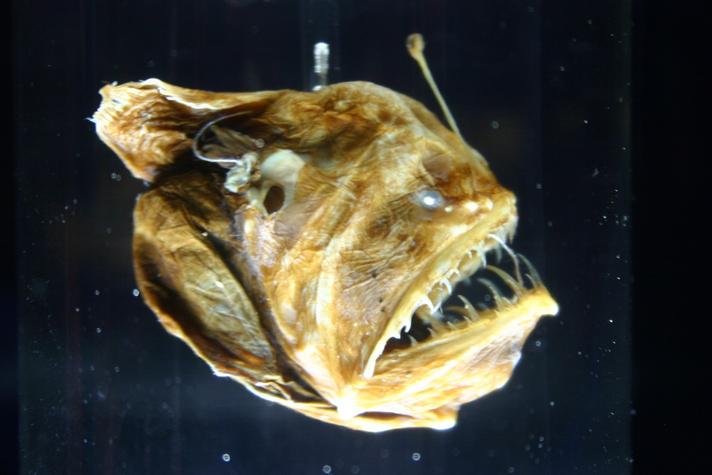 maybe Melanocetus johnsonii